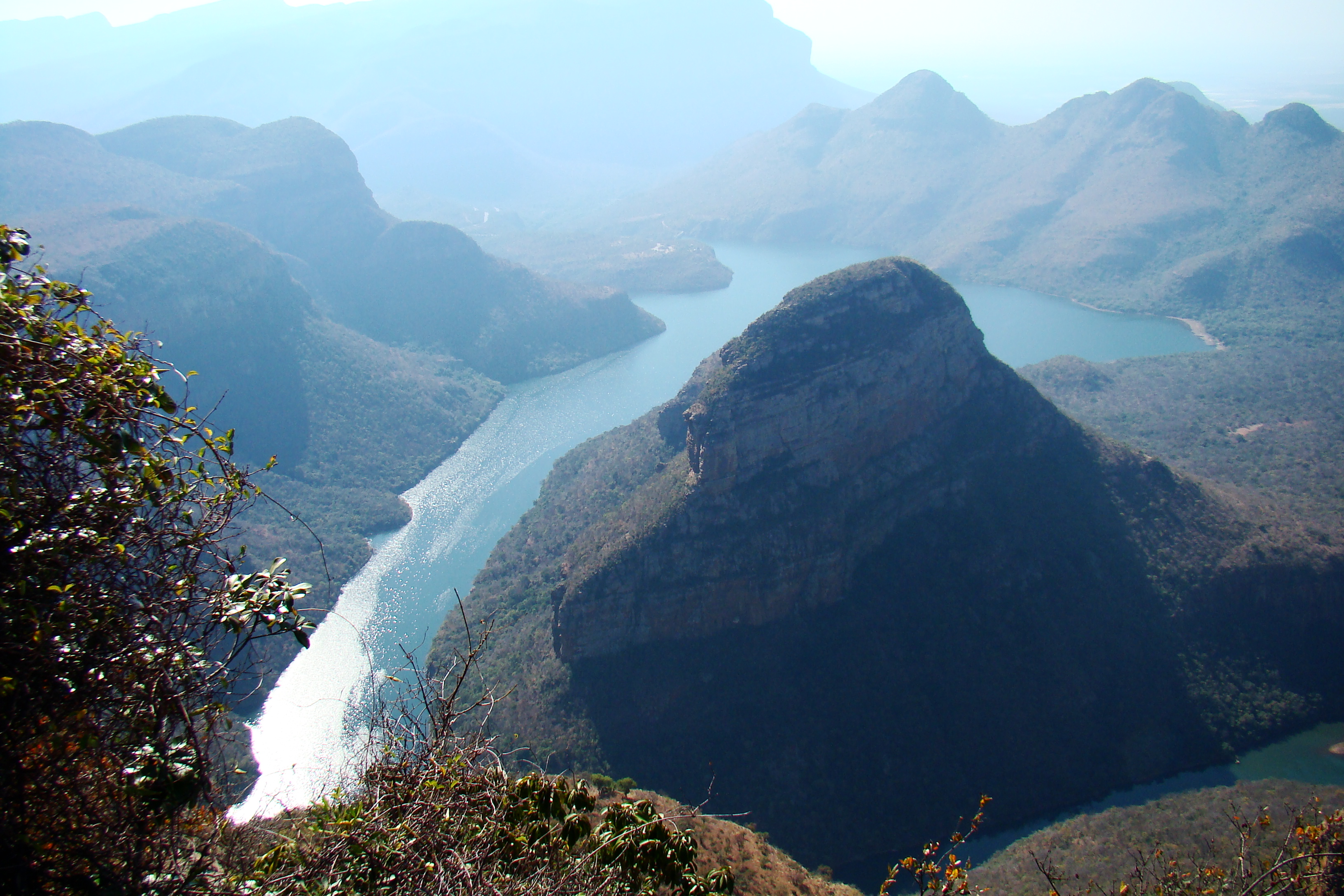 Blyde River Canyon, South Africa